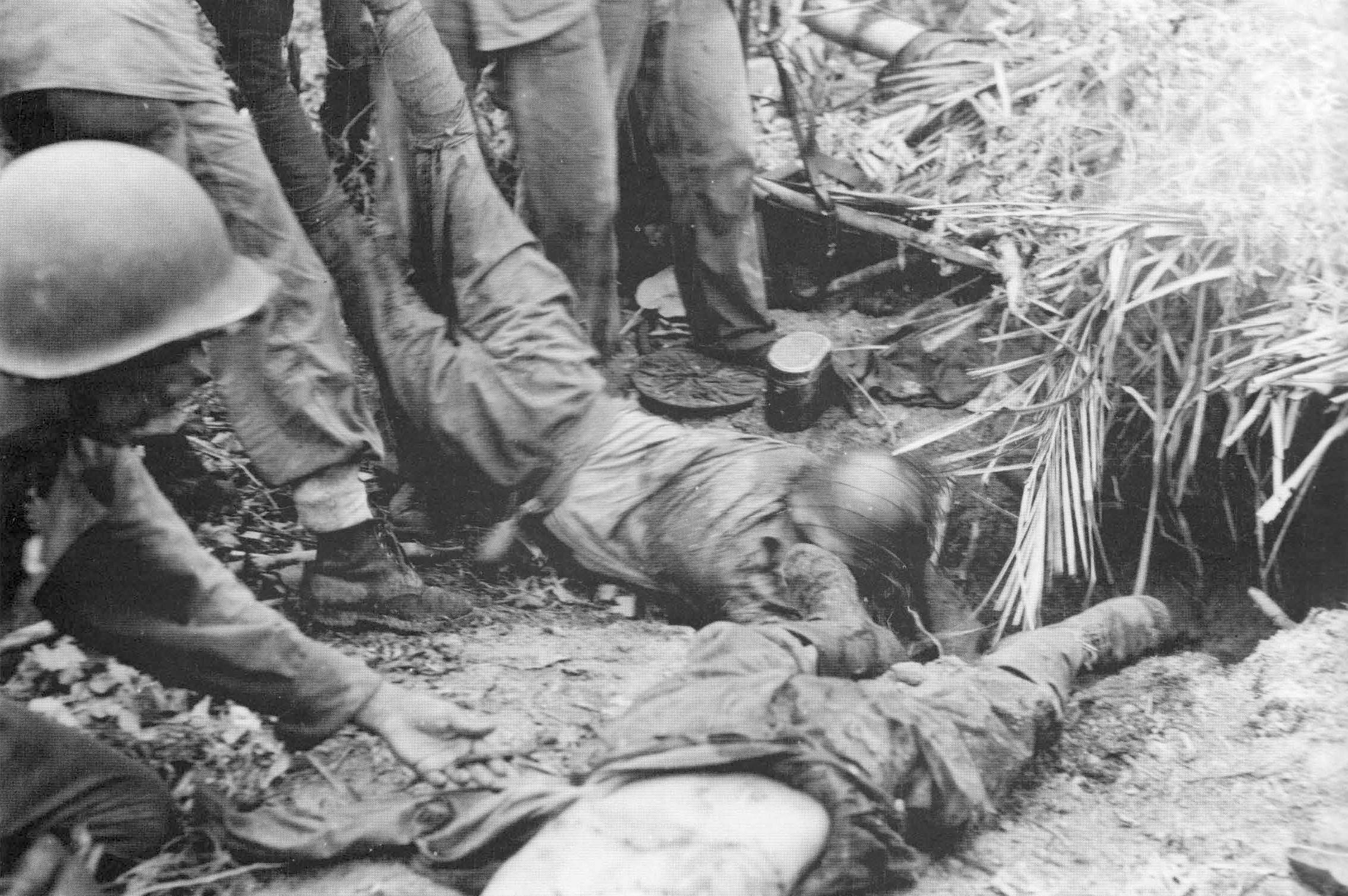 U.S. Marines drag dead Japanese soldiers from their bunker near Point Cruz on Guadalcanal in November, 1942.